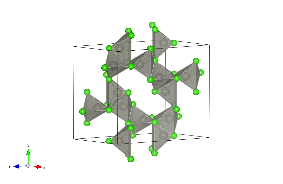 monoclinic low temperature structure of ZnCl2